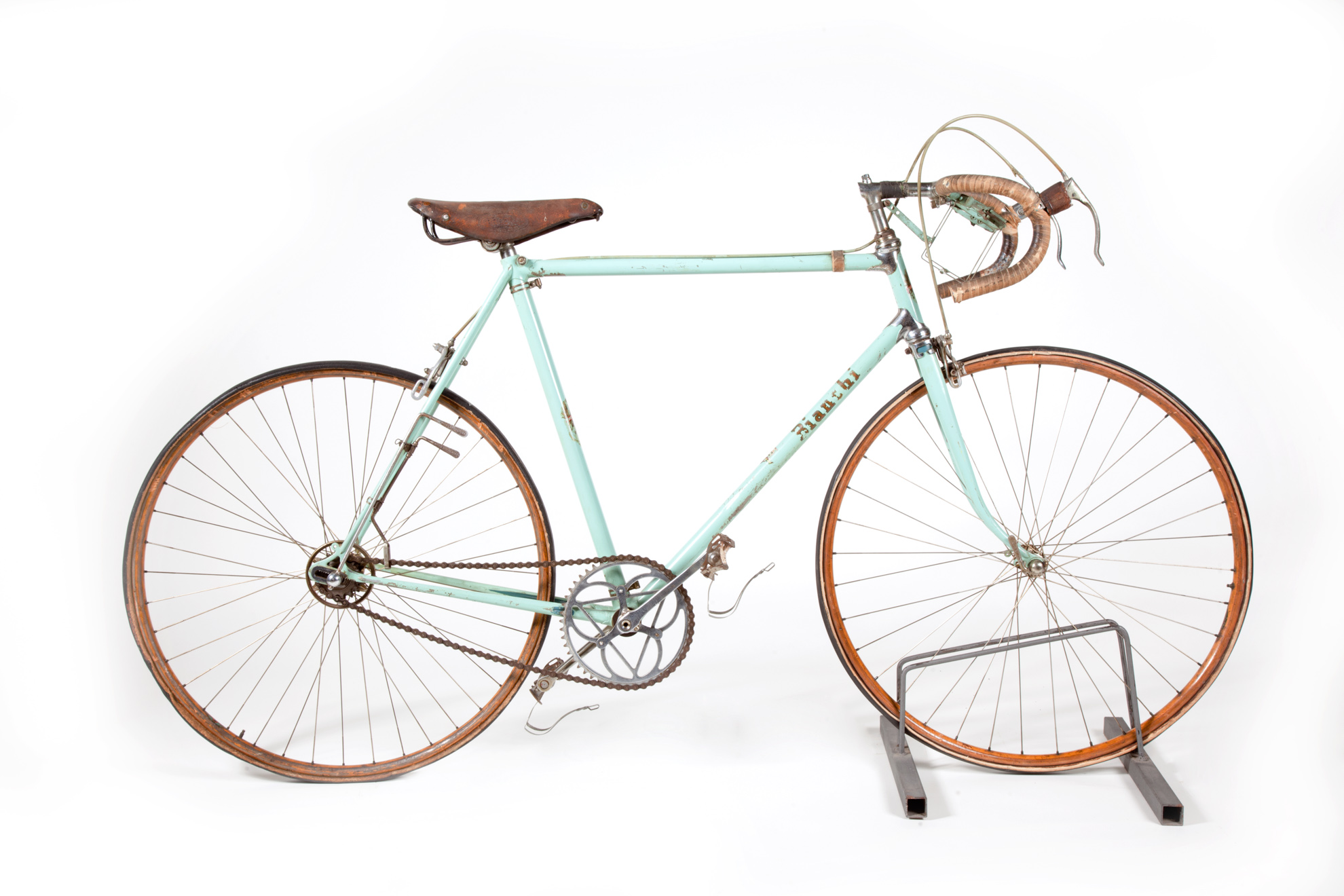 Museum source says this is either a 1950 bicycle, or it is somewhere in the range 1950 to 1952, not 1949. and